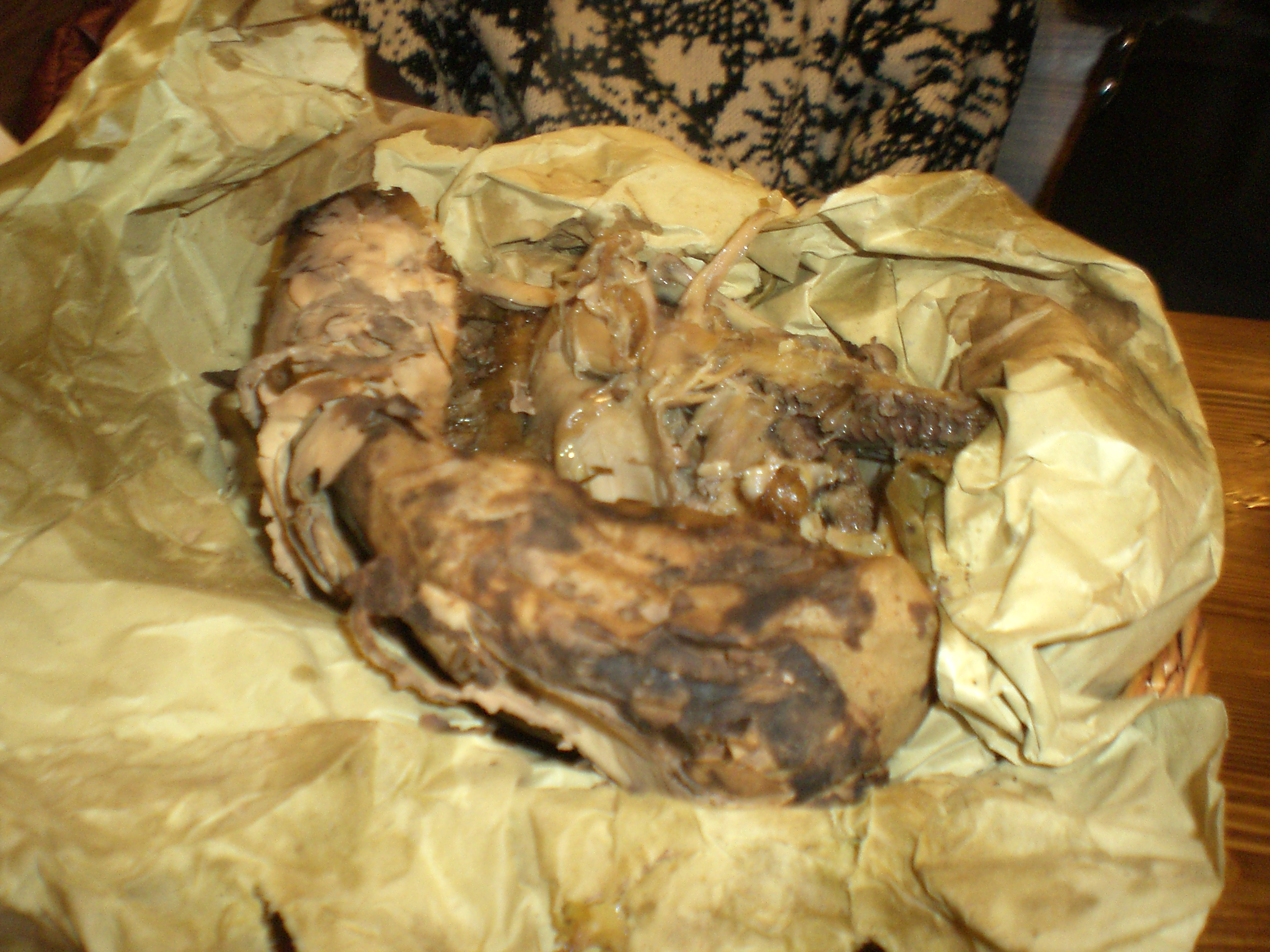 Beggar's Chicken from China Jiangsu.